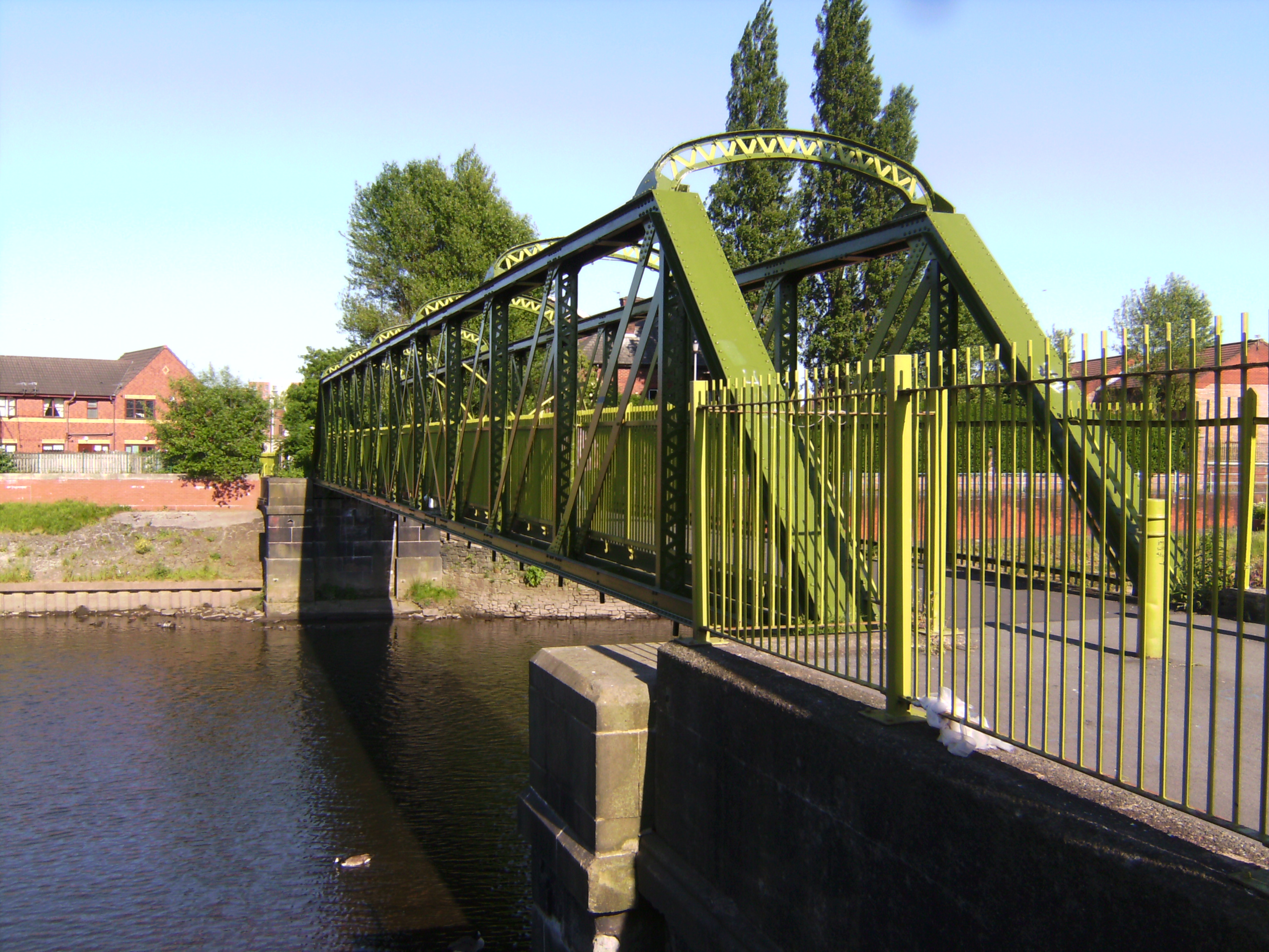 Gerald Road Bridge, Broughton